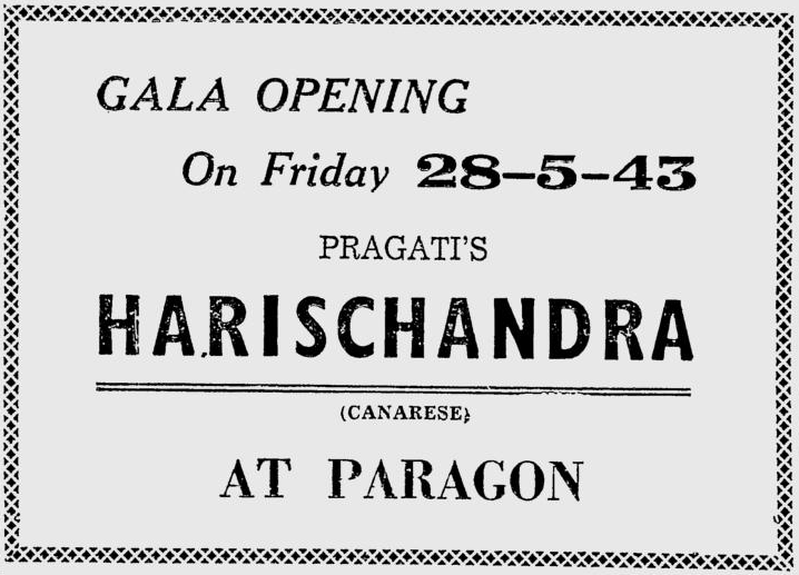 Advertisement for the 1943 Kannada film, Satya Harischandra, that appeared on The Indian Express.